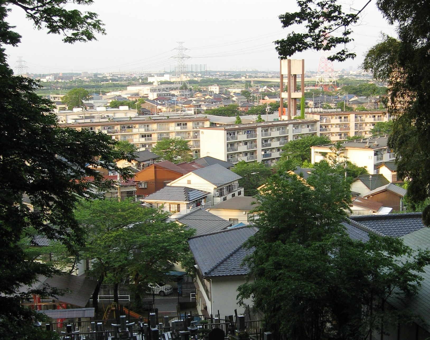 View of Tama River side area from Oomatono Tsunoten Shinto Shrine in Inagi, Tokyo, Japan.